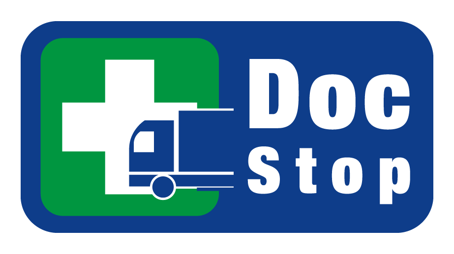 DocStop Logo